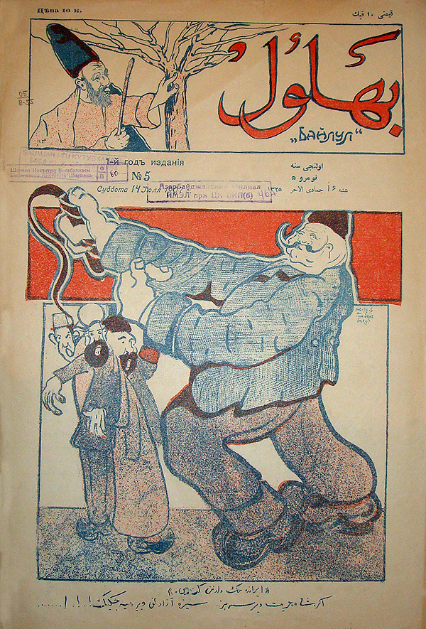 «Бахлул», Azerbaijani satirical magazine 1907, July 14 (#5)